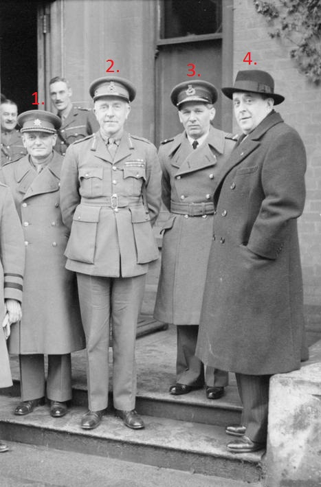 The Czechoslovak Government in Exile during the Second World War Members of the Czech Government in Exile visiting Northern Ireland. Left to right: Brigadier General Edmund Hill (USA); General Jan Sergěj Ingr, Minister of National Defence and Commander in Chief of Czechoslovak Forces; Lieutenant General Harold Edmund Franklyn CB DSO MC, General Officer Commanding British Troops in Northern Ireland; Air Vice Marshal Karel Janoušek, General Officer Commanding the Czechoslovak Air Force; and Mr Jan Masaryk, Deputy Prime Minister and Foreign Minister of Czechoslovakia.